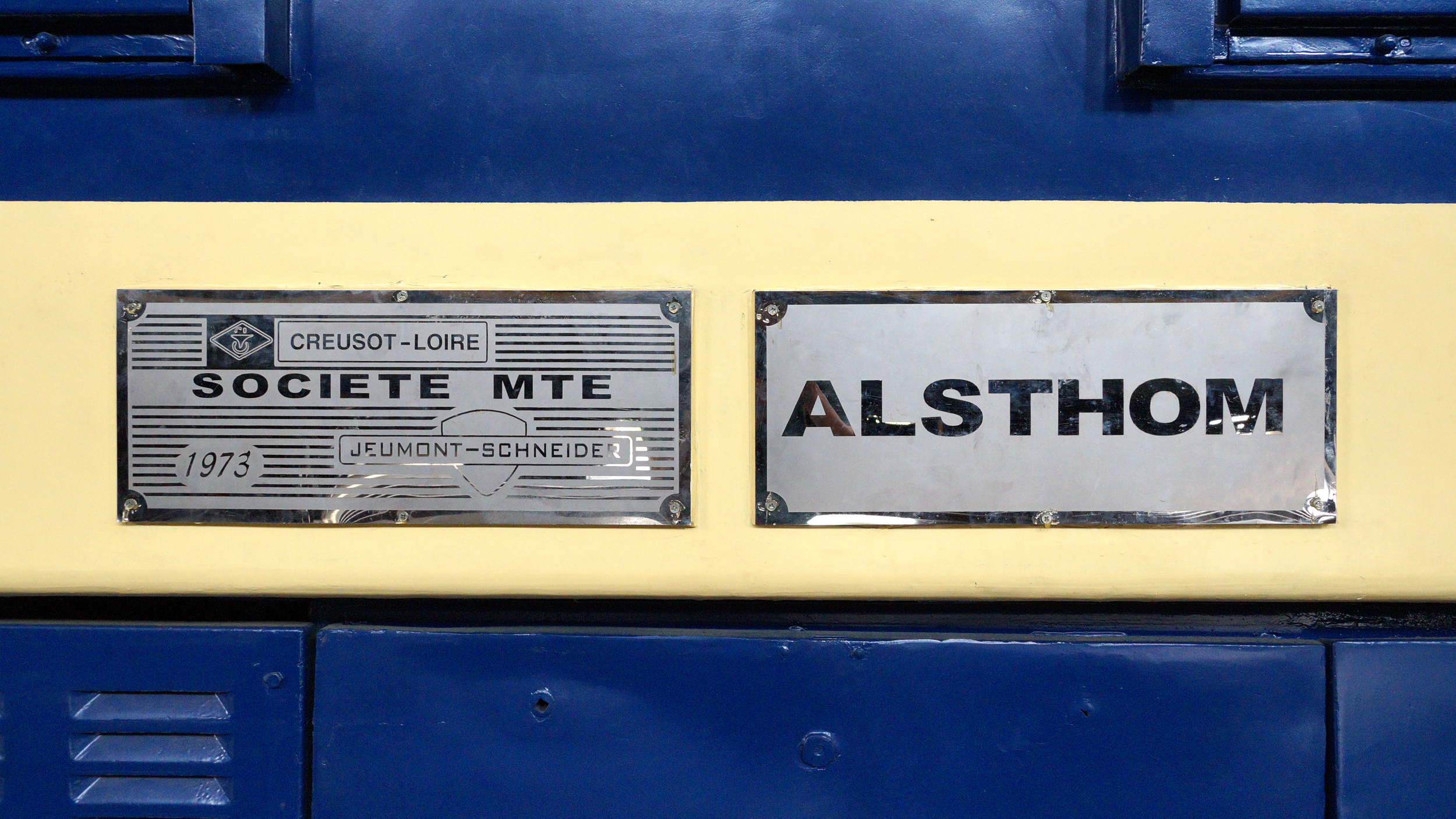 The manufacturer name plates of China Railways ND4-15 diesel locomotive, displayed in China Railway Museum in Beijing